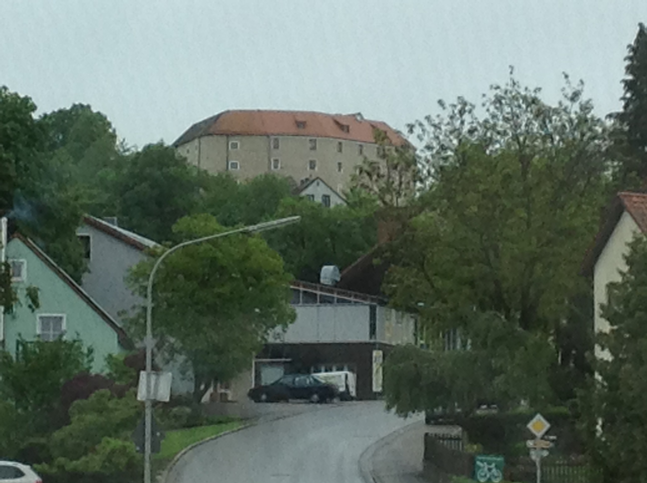 Restored Lupburg castle.